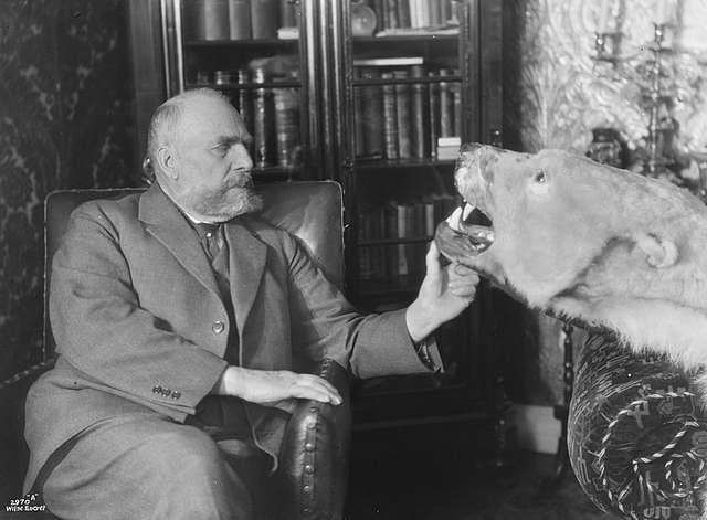 Norwegian sailor and Arctic explorer Otto Sverdrup.